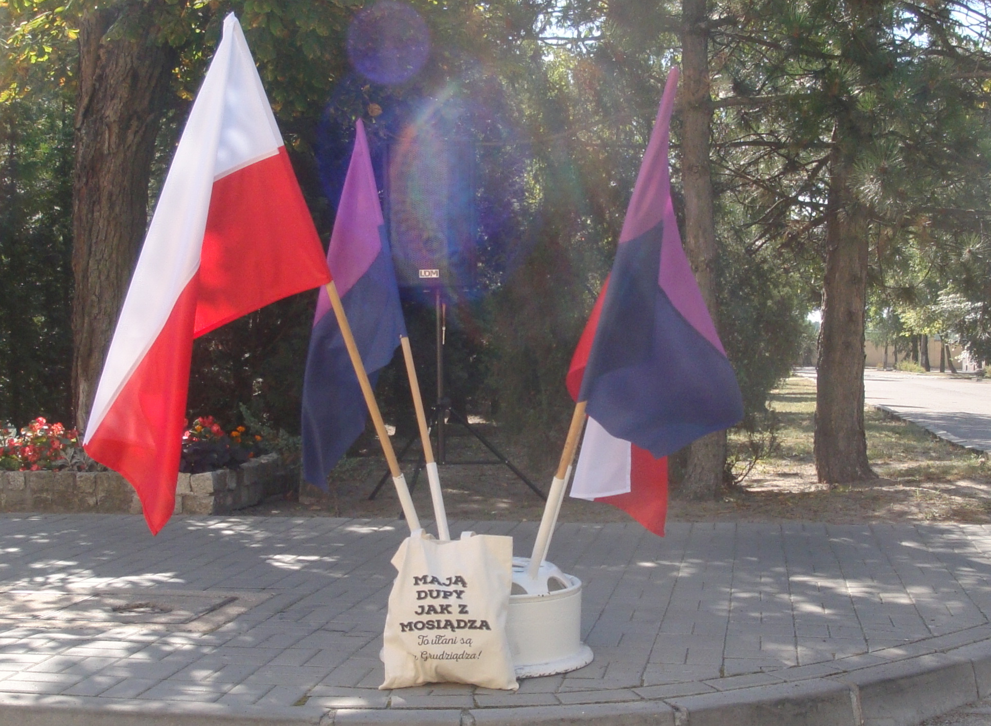 Part of Żurawiejka of 18th Pomeranian Uhlan Regiment on shopping bag, used for promotion of Grudziądz history. Translated text state: "Their asses are made of brass, These are the uhlans from Grudziadz." Żurawiejka was a short, two-line facetious couplet, written specifically for cavalry regiments of the Polish Army